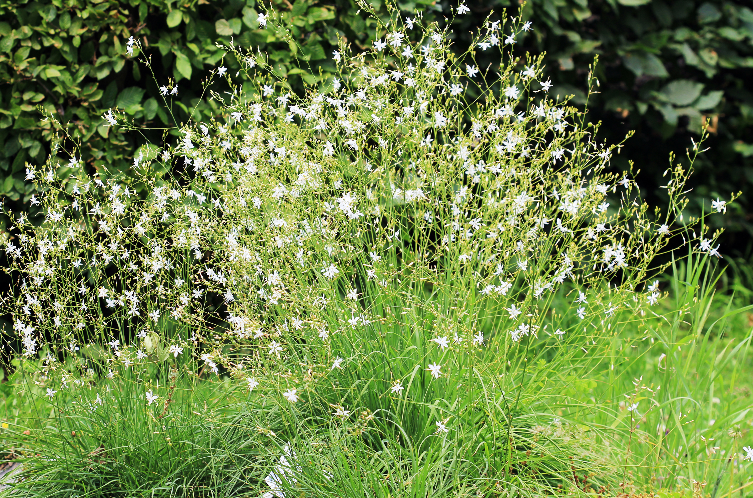 Flowering plant Anthericum ramosum from the Botanical Gardens of Charles University, Prague, Czech Republic